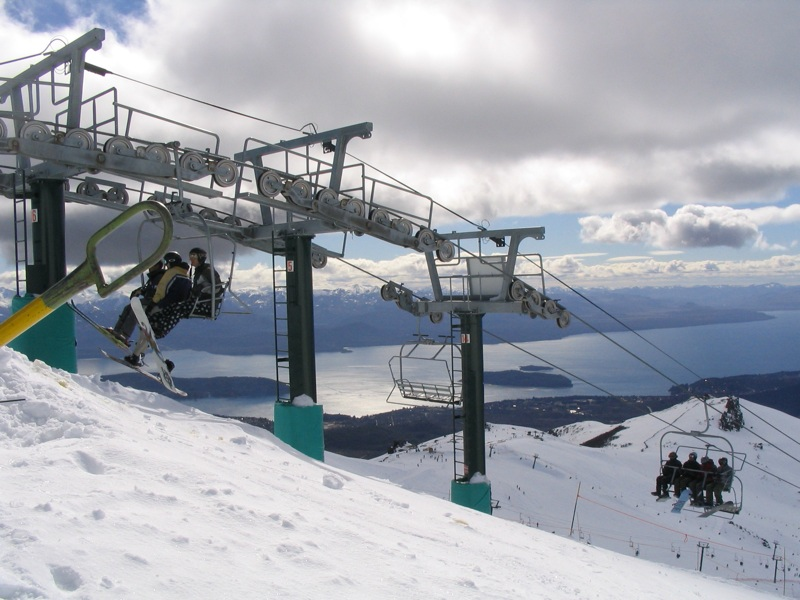 Bariloche, Patagonia (Argentina).